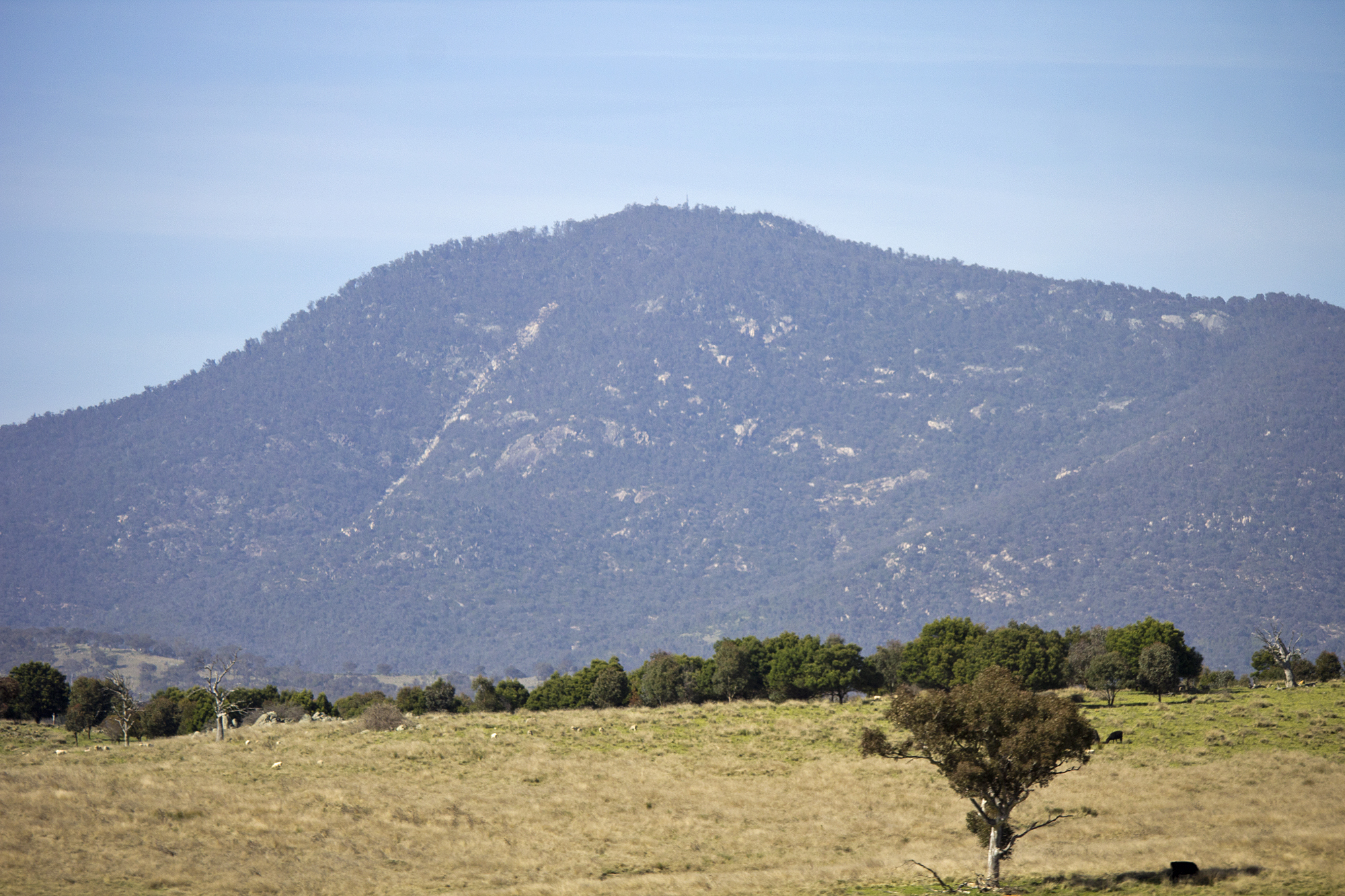 Mount Tennent viewed from Point Hut Road in district of Paddys River, taken during on route to an hiking tour as part of Australian Capital Tourism's Human Brochure.